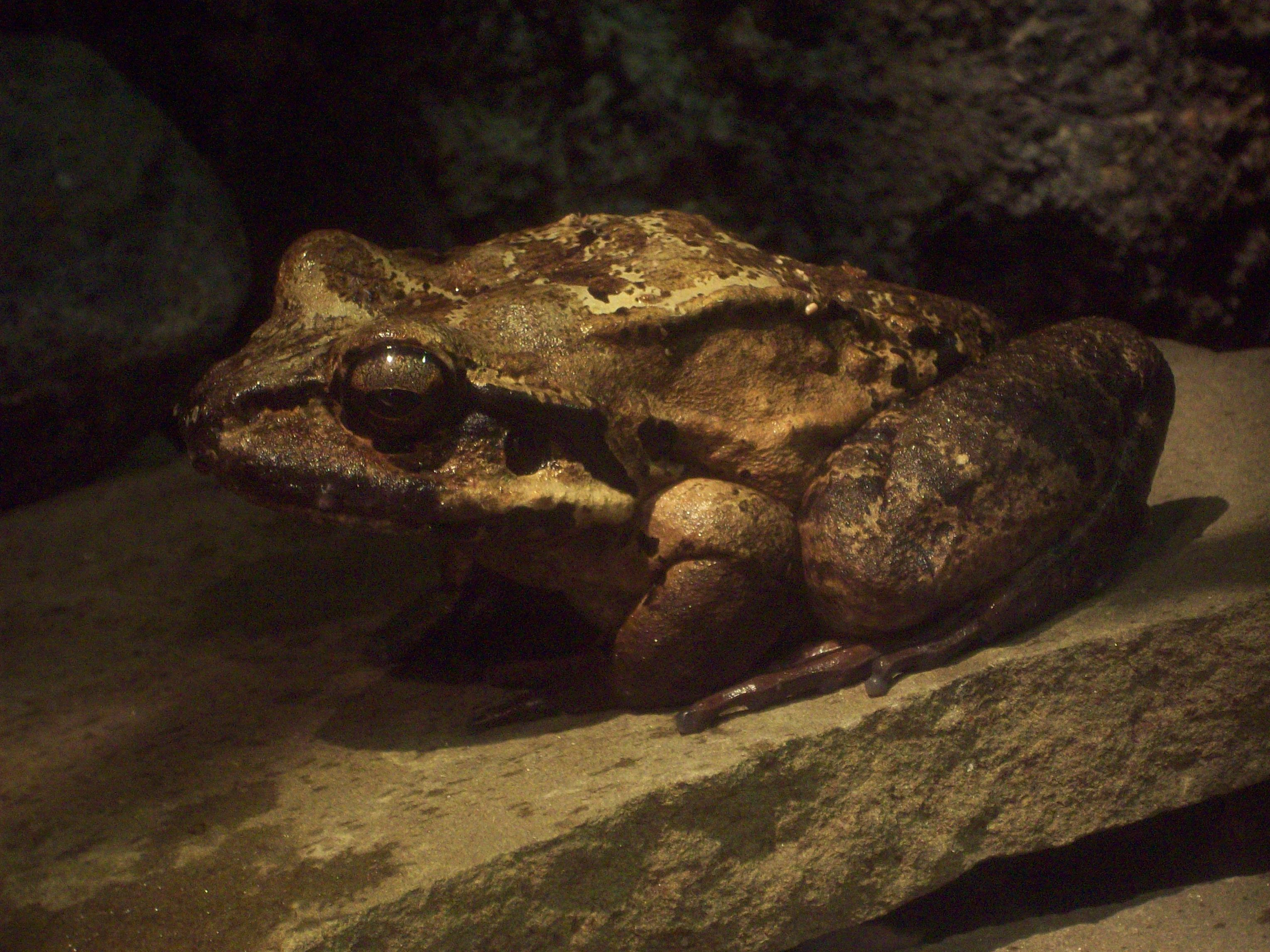 Mountain chicken (Leptodactylus fallax) at the National Amphibian Conservation Center (Amphibiville) at the Detroit Zoo.